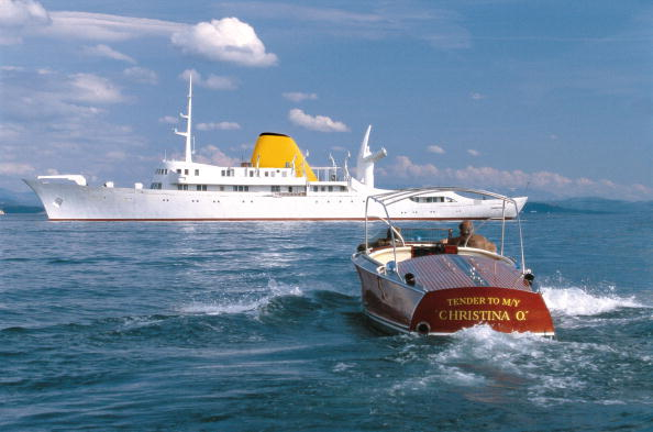 A classic Hacker-Craft tender to the world's most famous super-yacht, Aristotle Onassis's "Christina"